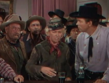 L. to R. (foreground) : Chubby Johnson, Doris Day & Howard Keel in Calamity Jane - trailer (cropped screenshot)